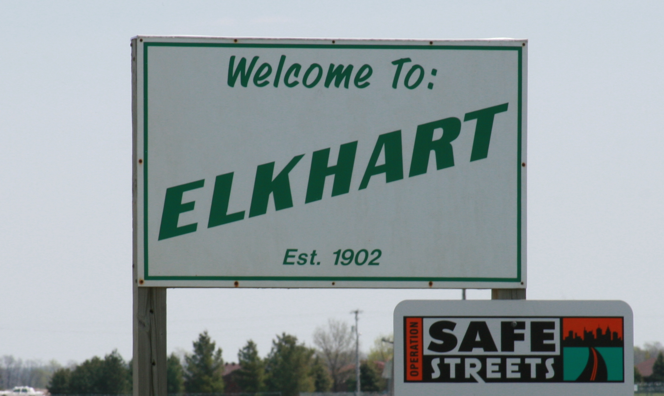 Welcome sign for Elkhart, Iowa